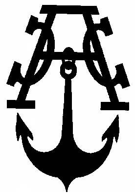 Emblem of the Religiosas de los Ángeles Custodios, from a printed booklet (1901)